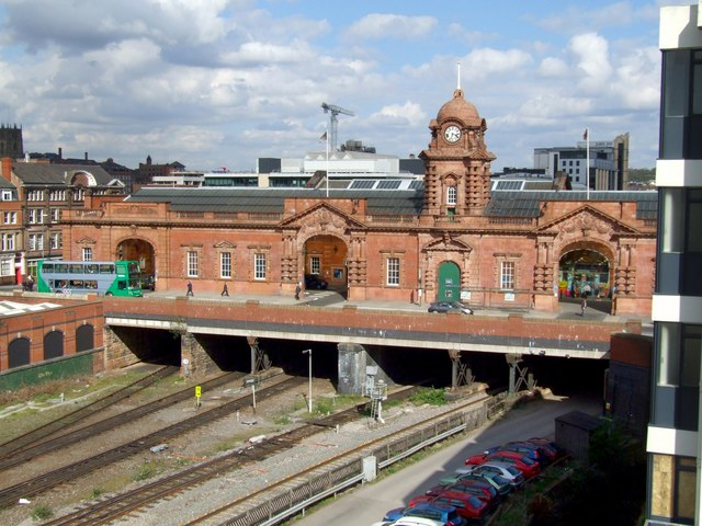 Nottingham Midland Station, Nottingham A line from Nottingham to Derby was opened by the Midland Counties Railway in 1839, with its station at the Meadows. The following year the line progressed to Leicester and on towards London via Rugby. Under the new Midland Railway, a line was opened to Lincoln in 1846. In 1848 the Meadows station was replaced by one in Station Street and the Meadows became a goods depot. The GN line was the first to use the new station, but went on to build its own in London Road in 1857. The Midland opened other lines and traffic increased, which necessitated a rebuild in 1904, the frontage of which was designed by A E Lambert. It faces Carrington Street, but previously, the entrance was in Station Street. In 1900, the GCR opened the Victoria Station to the north and their route was elevated over the Midland's.